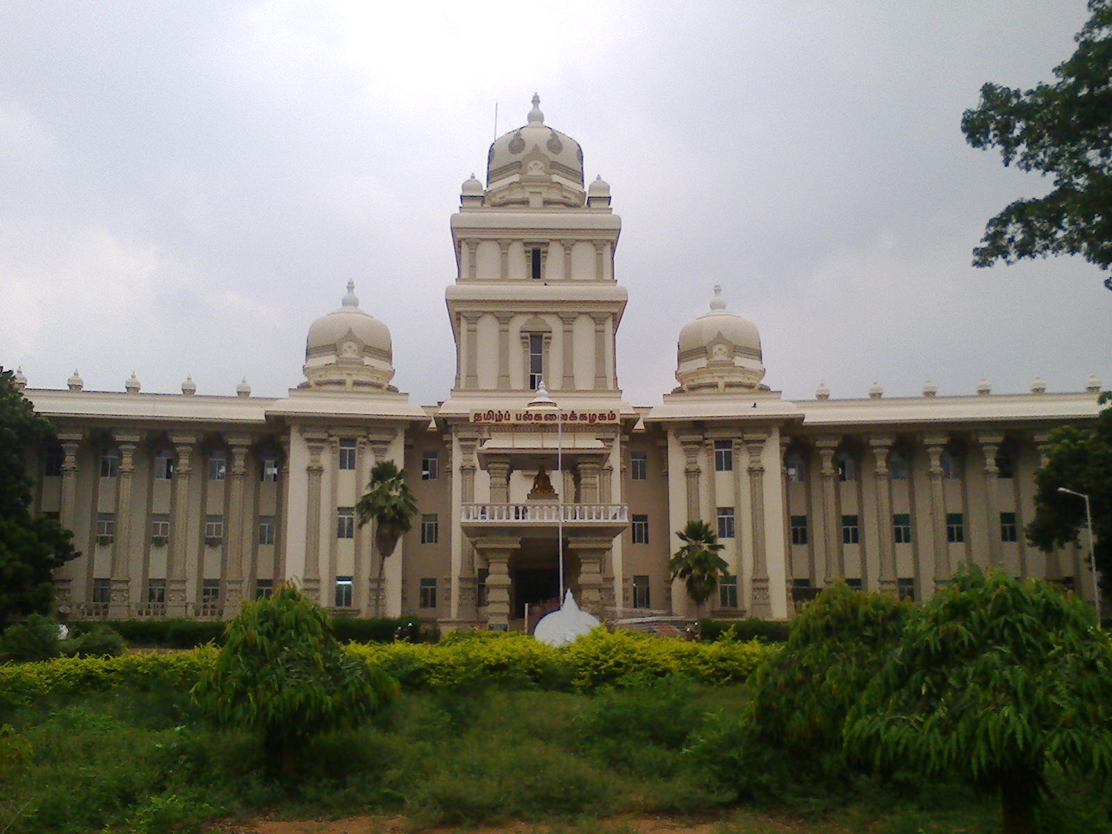 Tamil university administrative building தமிழ்ப்பல்கலைக்கழக நிர்வாகக் கட்டடம்